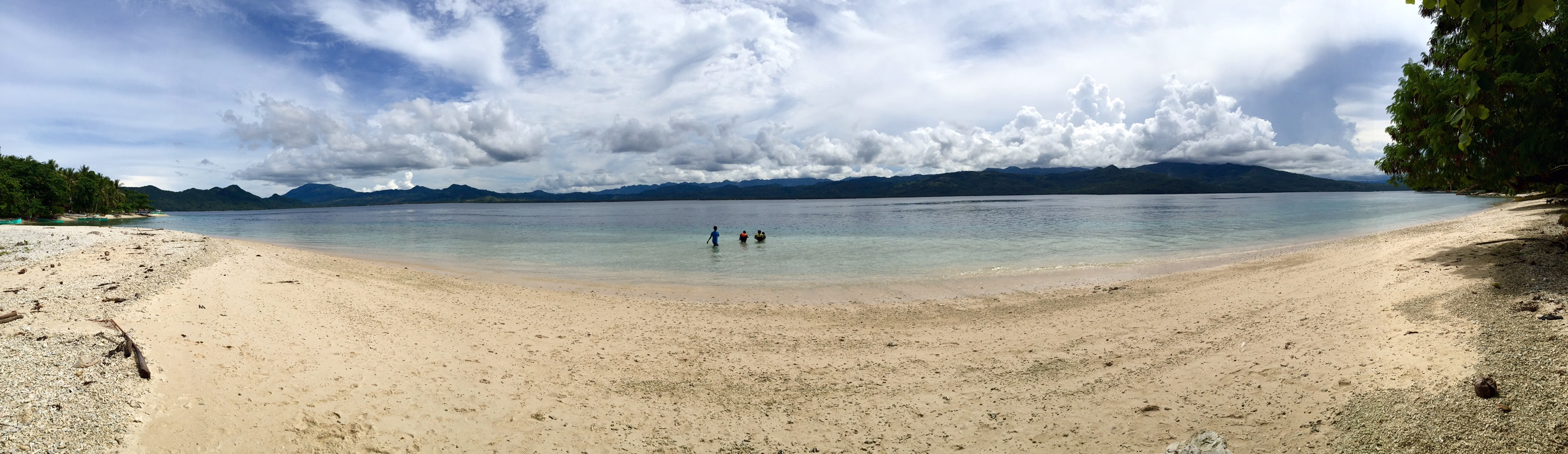 View of Hinunangan Skyline and Hinunangan Bay from San Pablo Island.